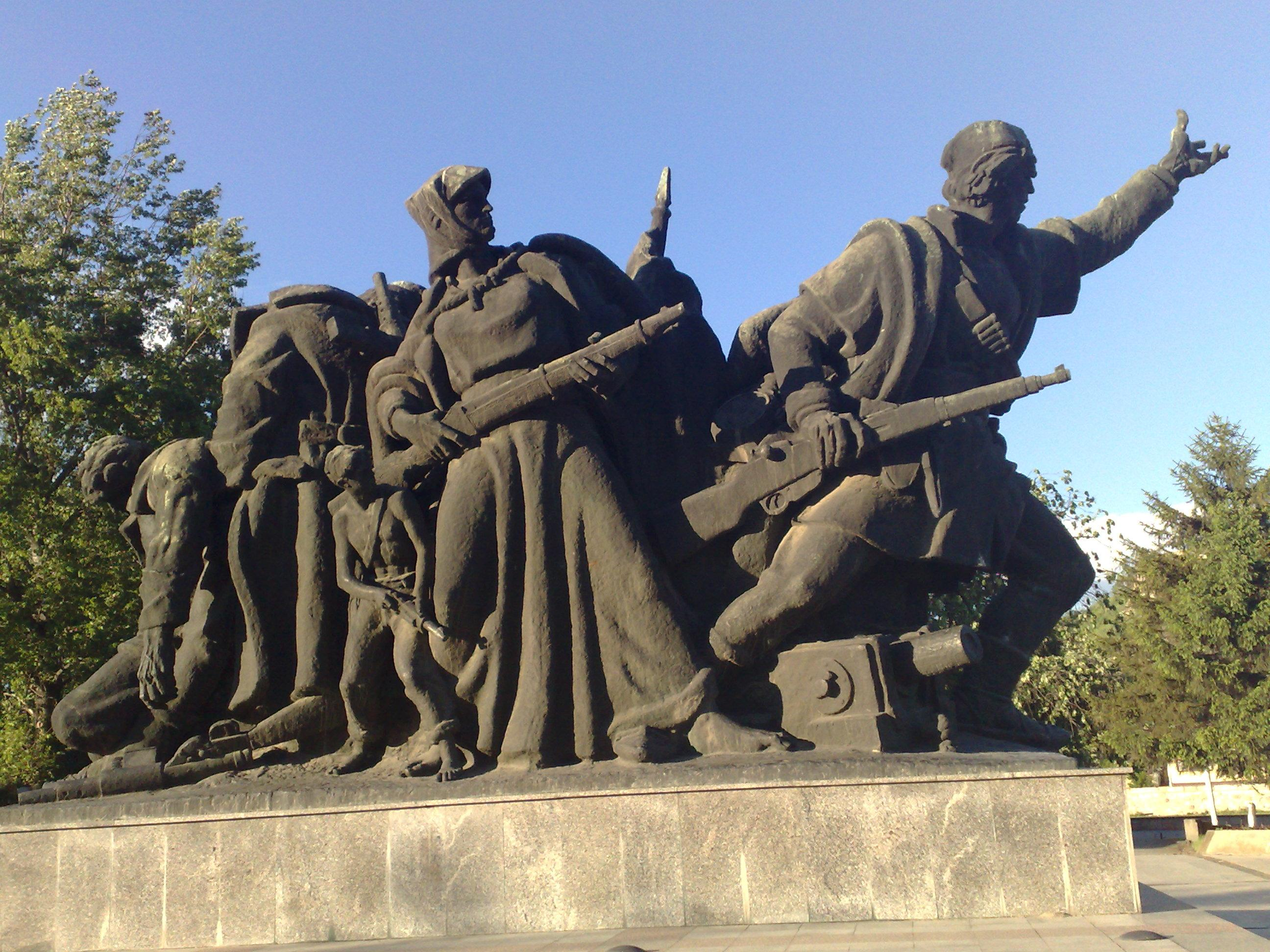 The "Liberators of Skopje" monument in the center of Skopje, Republic of Macedonia.